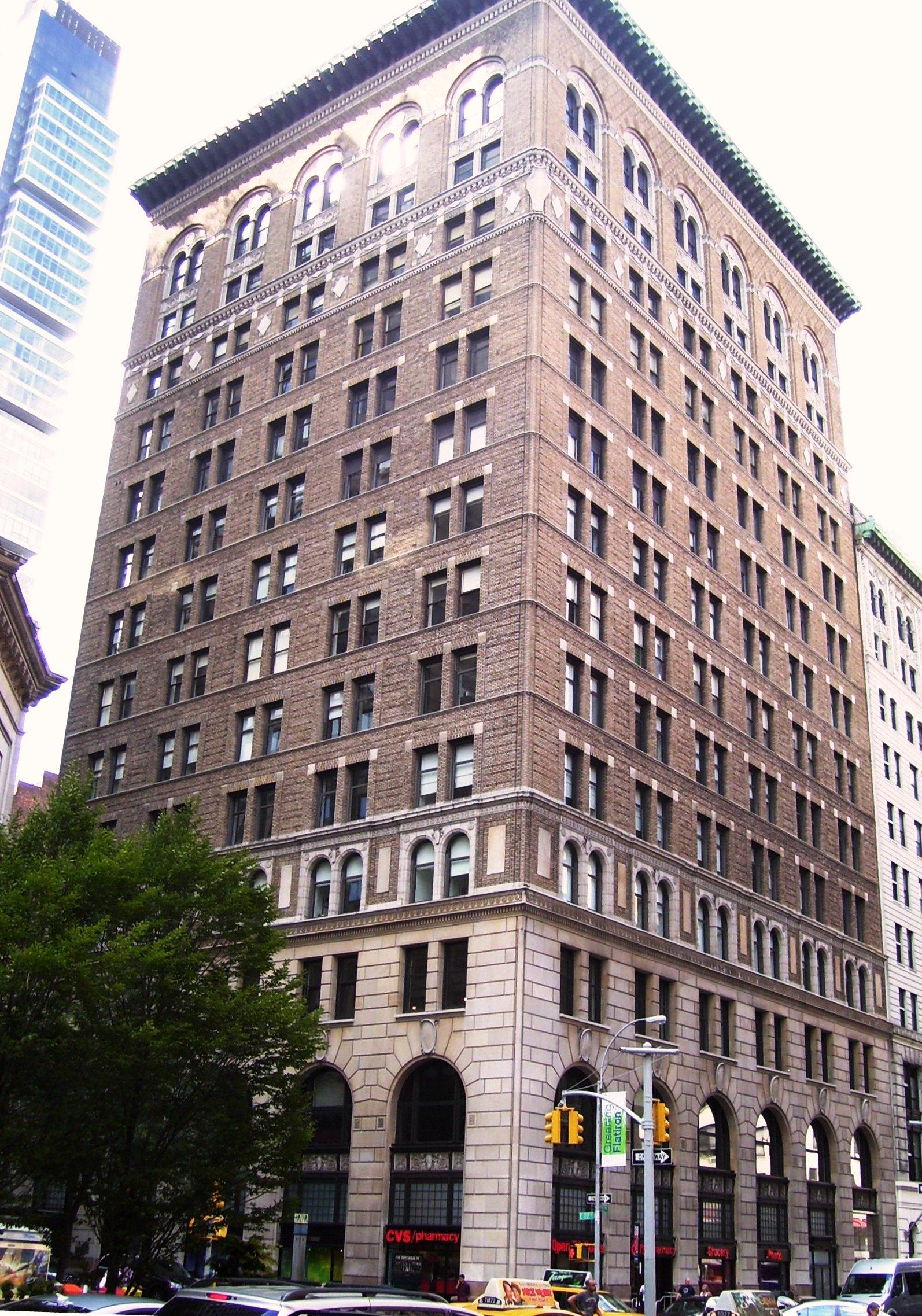 300 Park Avenue South on the corner of East 22nd Street in the Flatiron District neighborhood of Manhattan, New York City, was built in 1911 in the Beaux-Arts style. In 2012, Rockrose, the owner of the building, gave the main entrance a makeover and renamed the building "The Creative Arts Center". Tenants include the Smithsonian, the New York State Council on the Arts, Wilhelmina Models and the Whitney Museum of American Art, which has a separate entrance on East 22nd Street. (Source: NYC GIS map and [1])